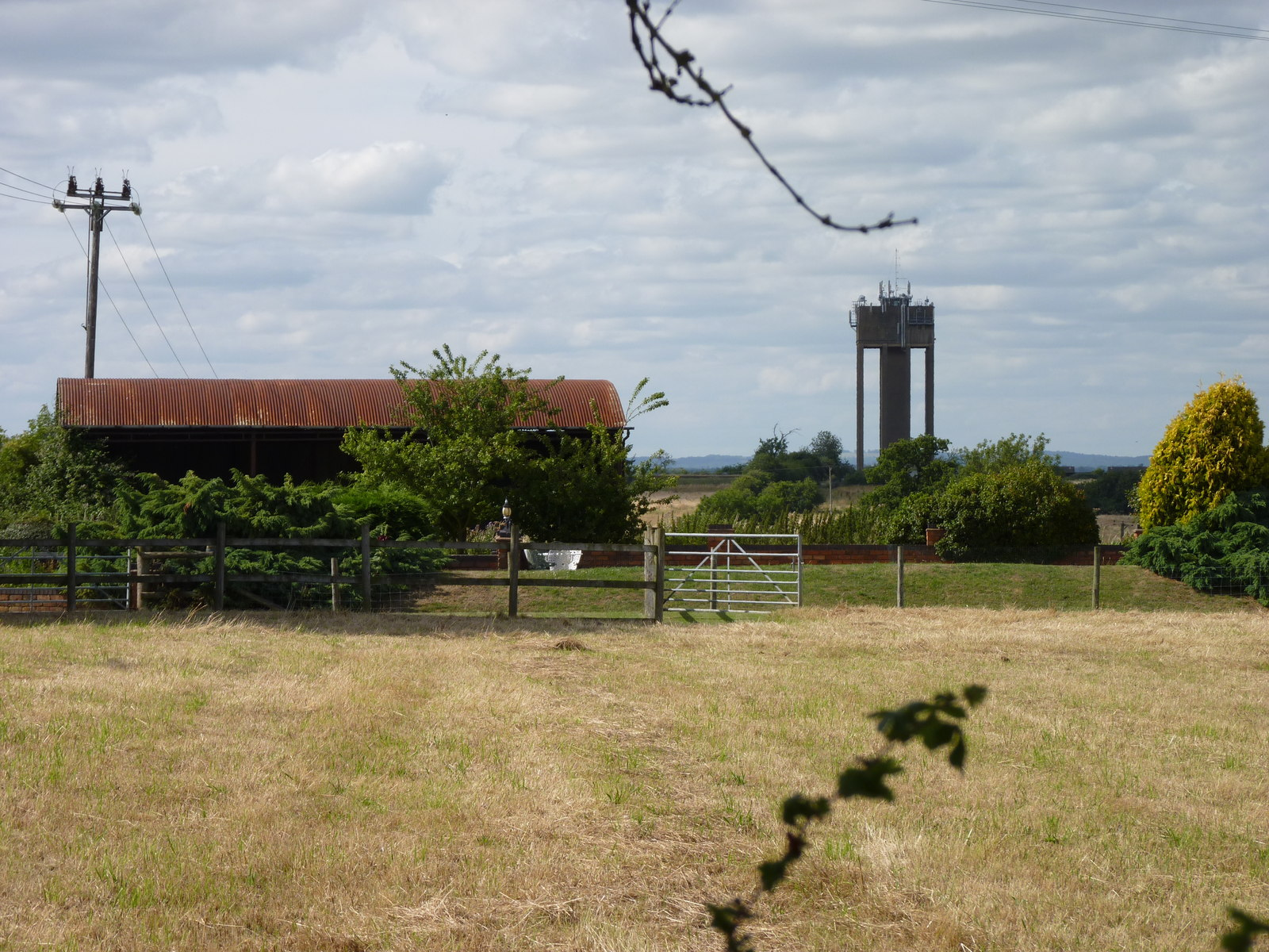 Barn at Hill Top Farm with Droitwich water tower behind